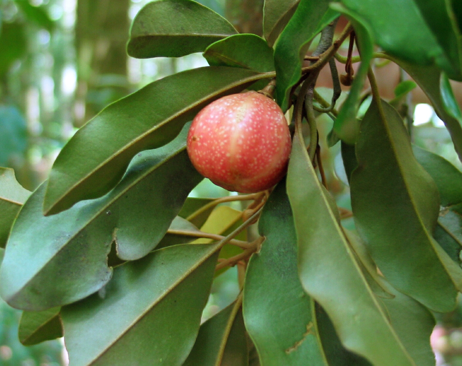 Galbulimima baccata (Himantandraceae) is considered to belong to one of the world's most primitive flowering plant families. It is a tall tree and grows in well developed rainforest in north-east Queensland and south-east Queensland. Although called many names, it is commonly referred to as either “Magnolia" or “Pigeonberry Ash".